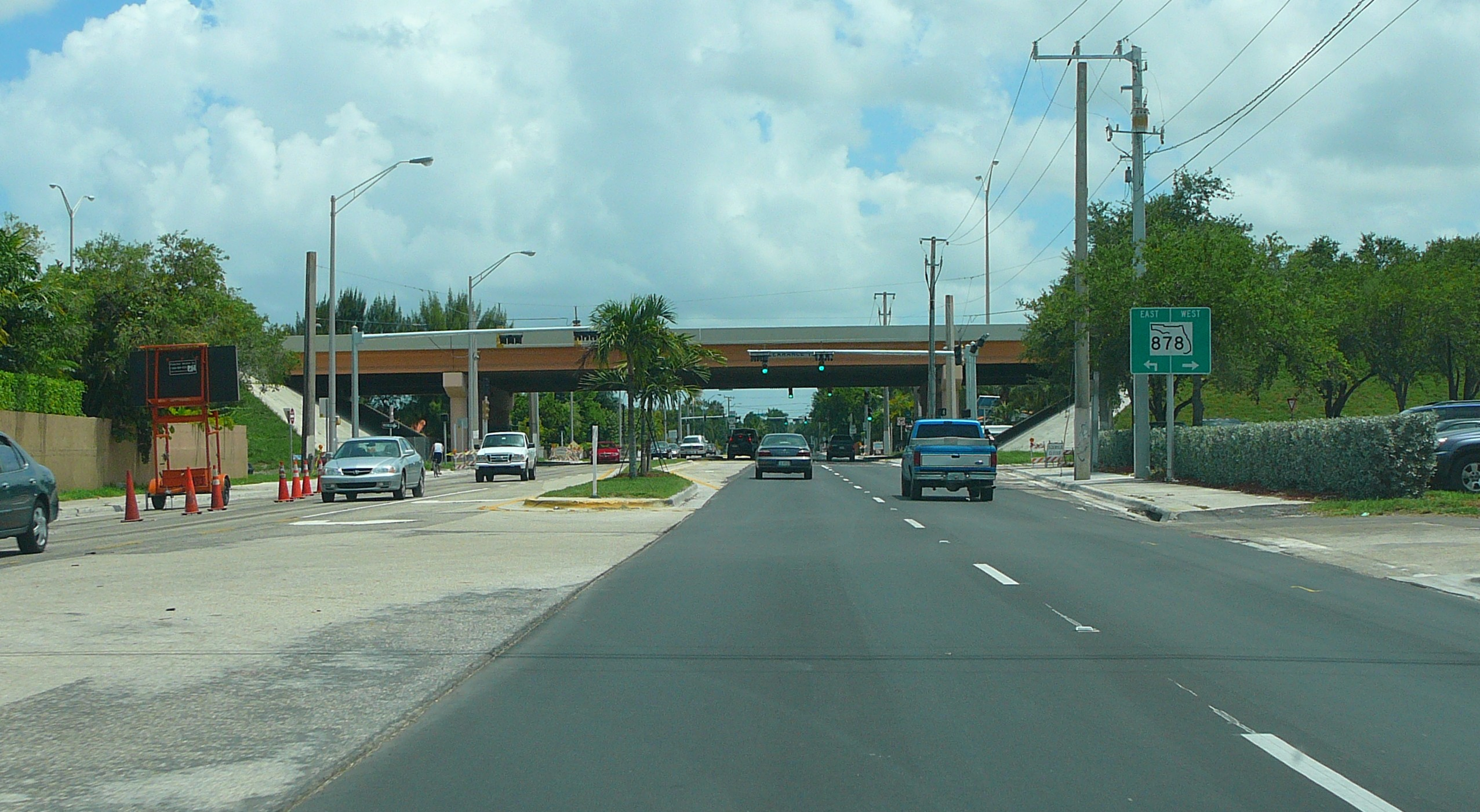 Digital photo taken by Marc Averette. Galloway Road southbound as it divides Glenvar Heights on the left with Sunset on the right, just south of Sunset Drive and north of the Snapper Creek Expressway (overhead) amd Kendall 7/10/2008.